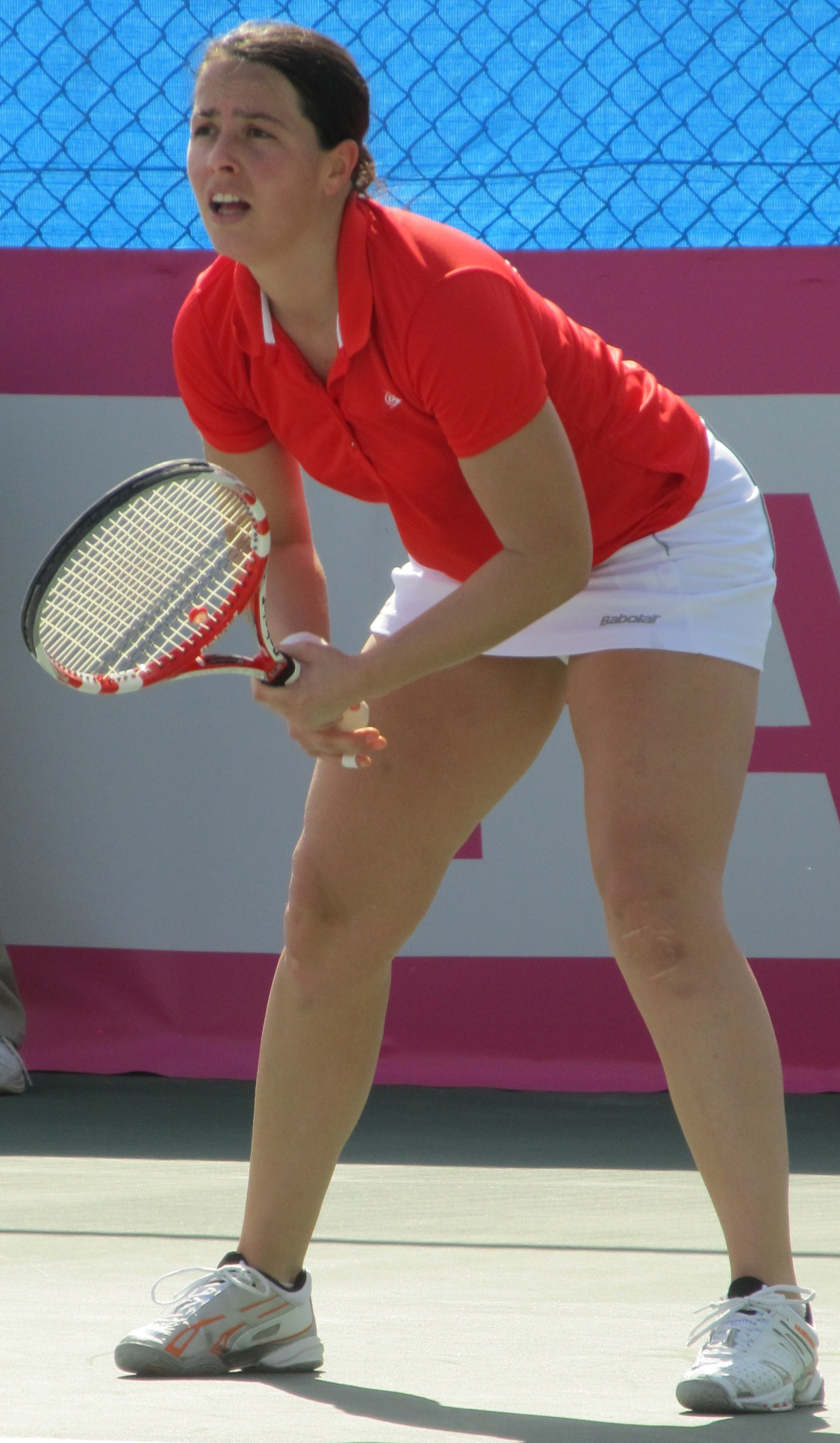 The tennis player Claudine Schaul of Luxembourg during her match against Urszula Radwańska of Poland in the 1st day of Fed Cup Group I 2012 Europe/ Africa in Eilat, Israel.